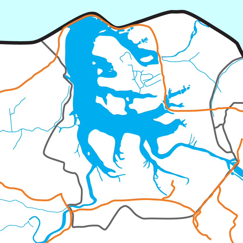 The Lauwersmeer Gray: Old sea dike Black: New sea dike Light blue: Wadden Sea Dark blue: Lauwersmeer Orange: Main roads